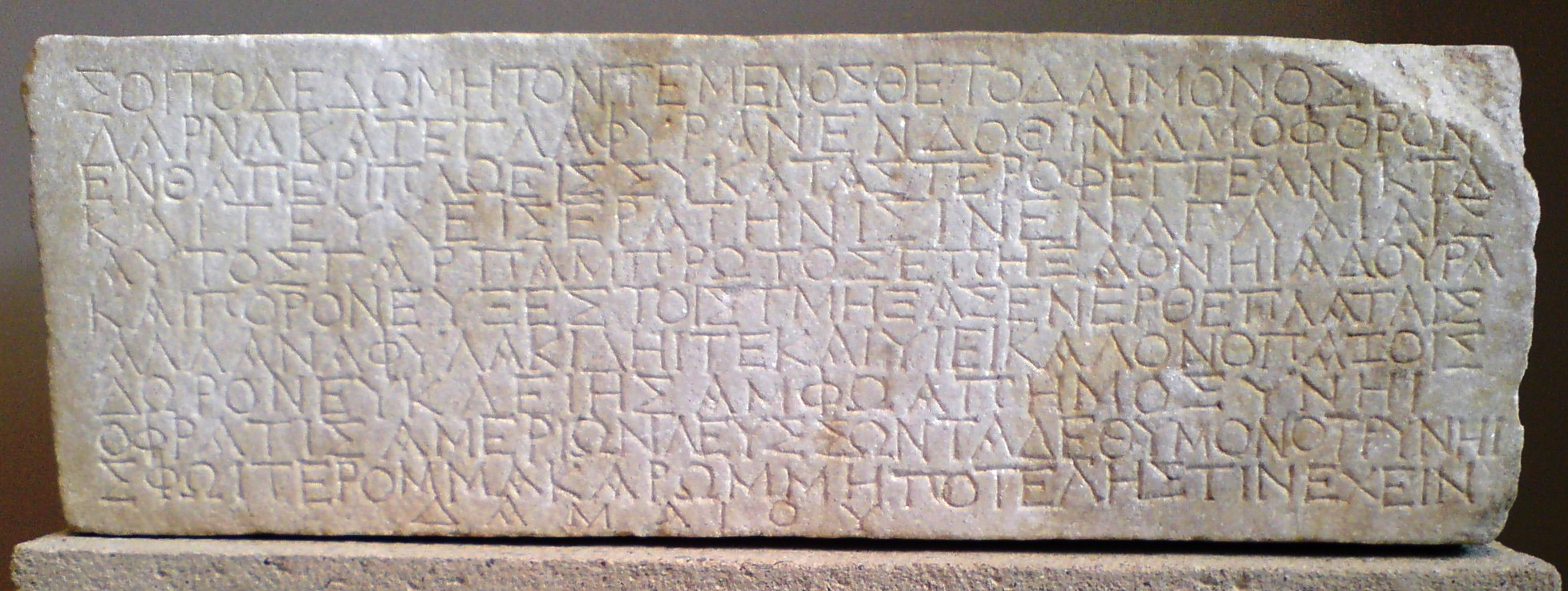 Slab with a poem in Greek written by Damaios of Thessaloniki at about 125-100 BCE dedicated to the Egyptian god Osiris, describing his death and dismembering by his brother Seth and his later resurrection by his wife Isis.